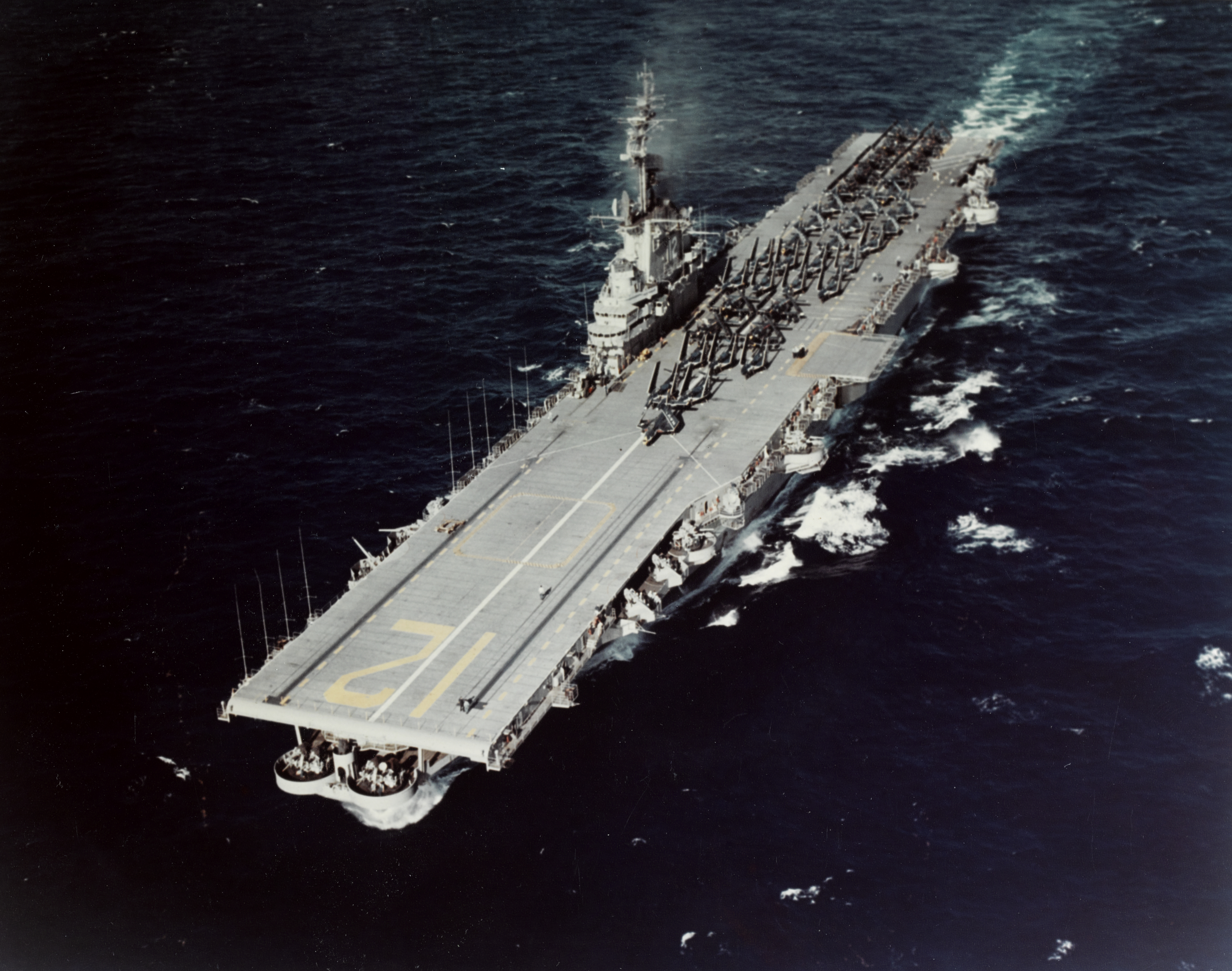 The U.S. Navy aircraft carrier USS Hornet (CVA-12) en route to Guantanamo Bay, Cuba, on 10 January 1954, during shakedown following completion of her SCB-27A modernization. Hornet, with assigned Air Task Group 181 (ATG-181), was deployed to the Caribbean from 6 January to 5 March 1954.